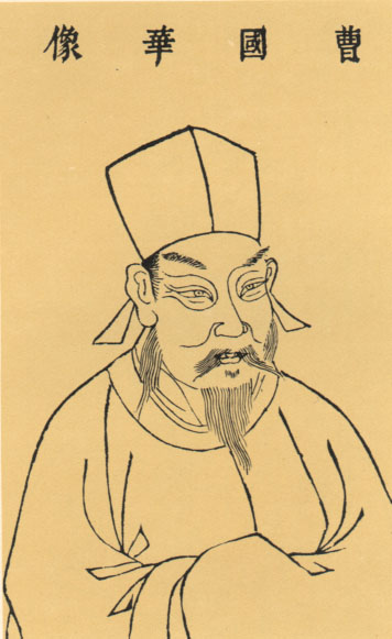 A portrait of Cao Bin from Sancai Tuhui.